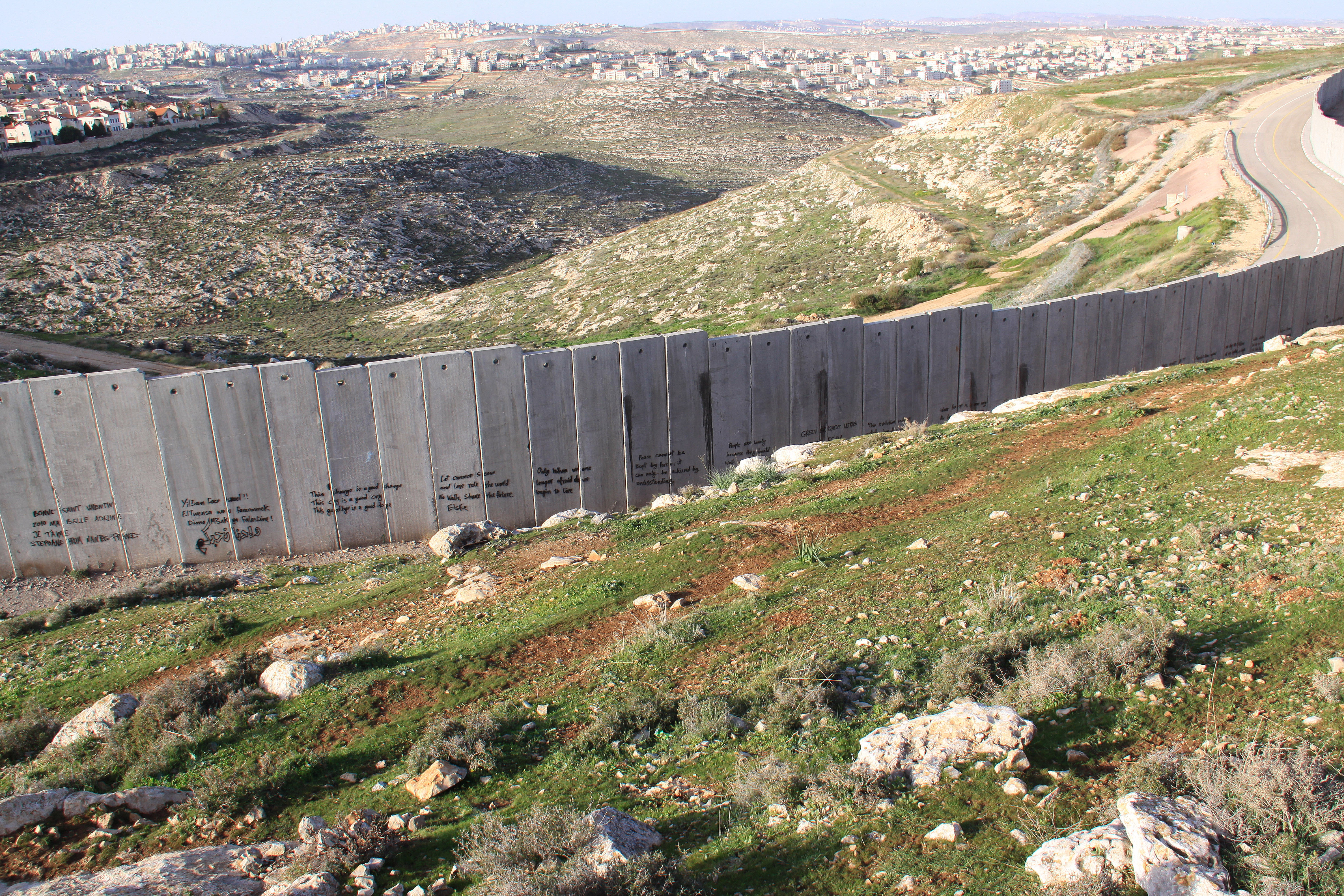 Israeli West-Bank barrier near Ramallah with texts sprayed on the wall as requested by people to the organisation "sendamessage"